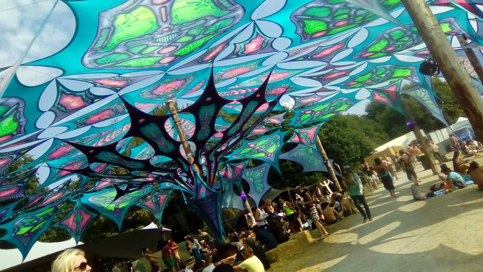 The Chill Out stage at psyfi